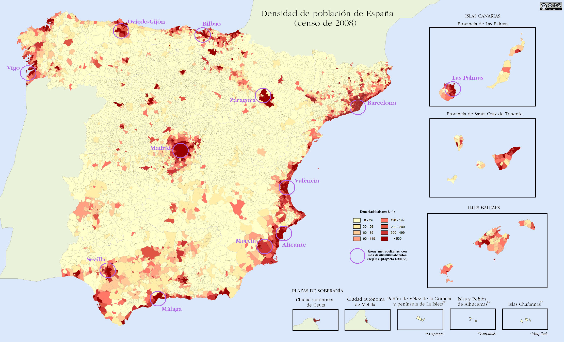 Population density of Spain (2009)